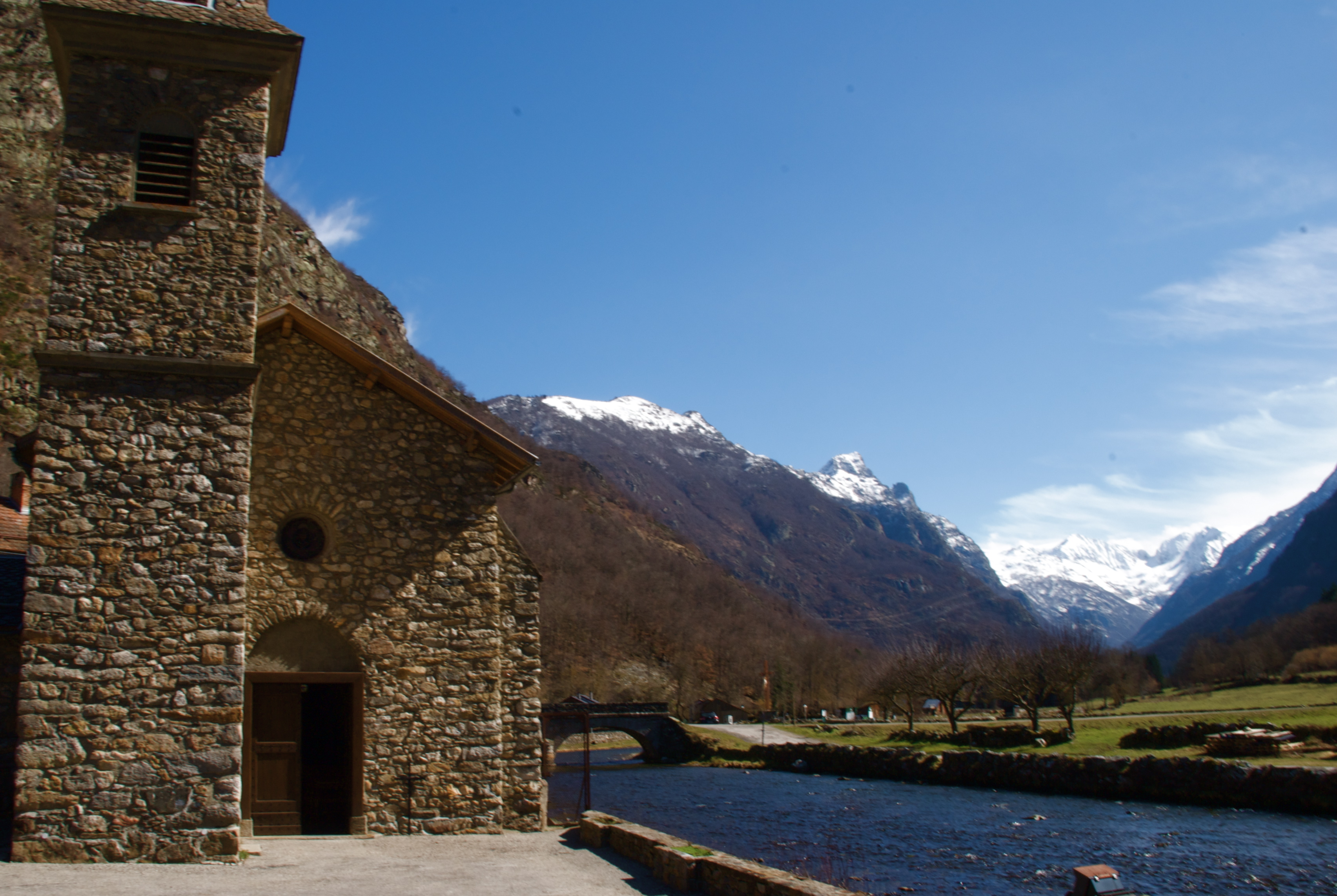 The town church in Orgeix, Ariège, France.